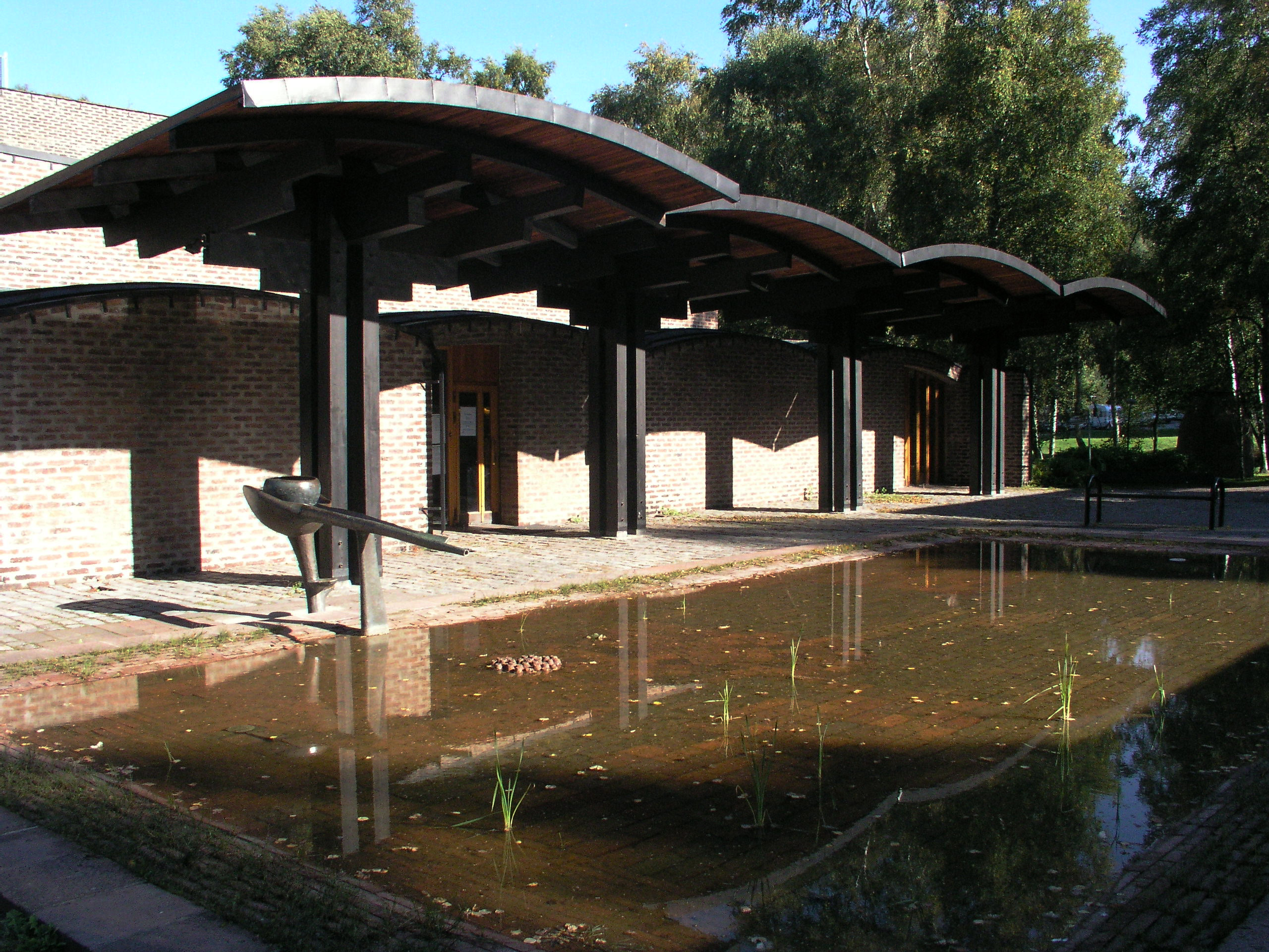 Markuskyrkan /Markus church, Björkhagen, Stockholm, Sweden. The photo was taken the 14th of September 2003 by Håkan Svensson (Xauxa). Lotusblomman (Indian lotus flower) (1956-1963), fountain in bronze outside Markuskyrkan (Markus church) in Björkhagen in Stockholm, by the sculpturer Robert Nilsson (1894-1980).